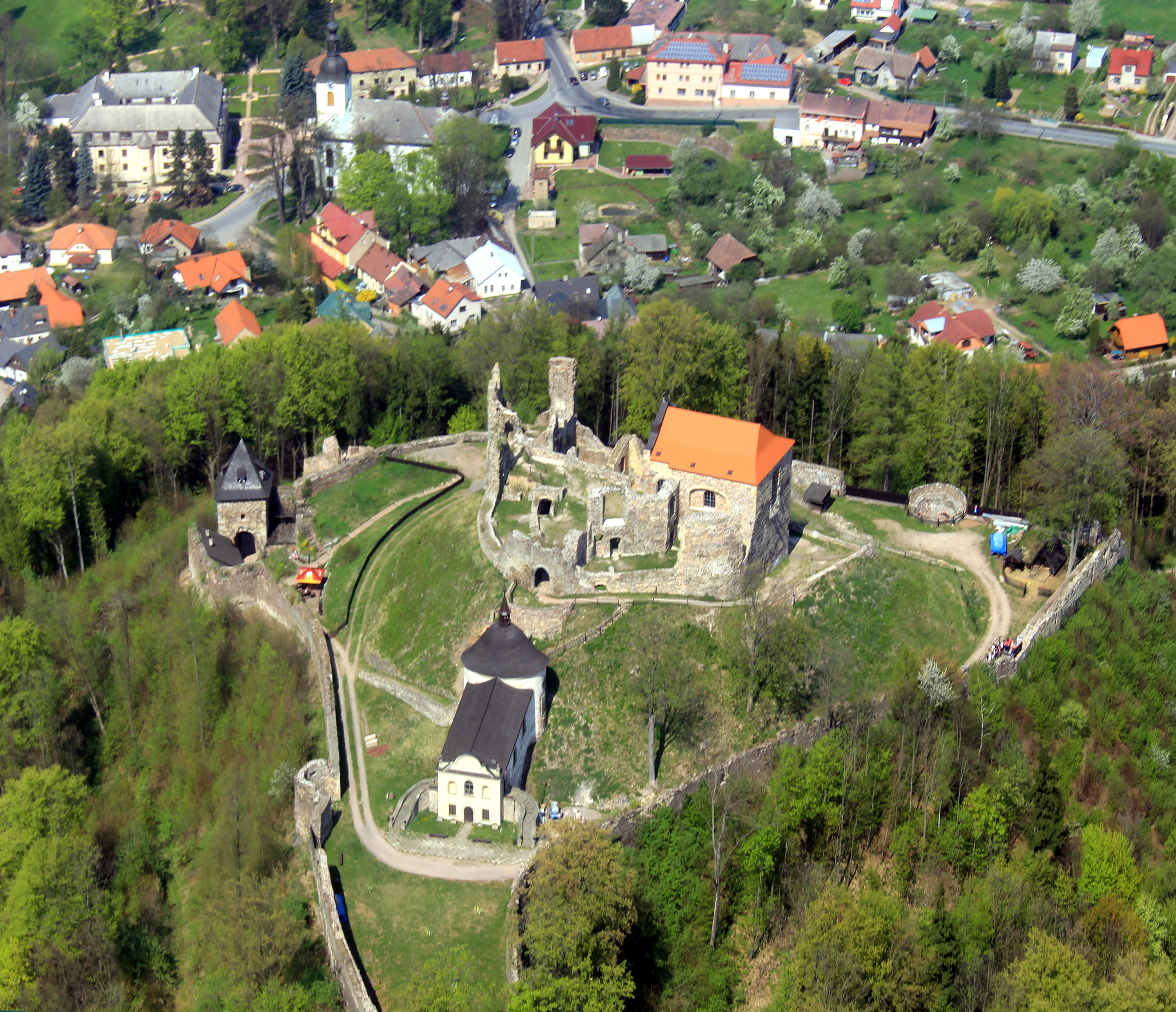 Part of village Potštejn with castle Potštejn from air, eastern Bohemia, Czech Republic